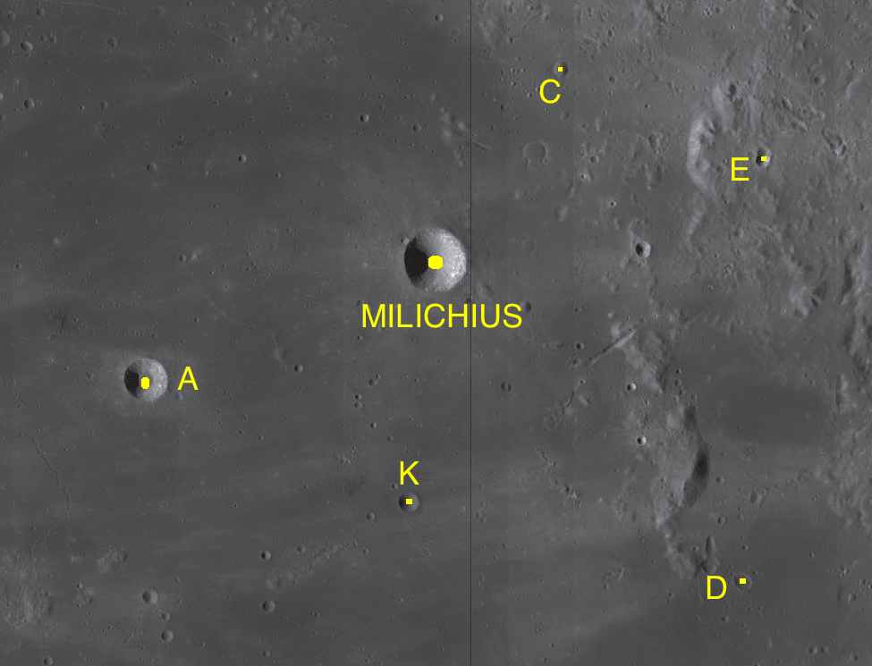 Parts of the charts LAC-57, LAC-58 used for the presentation